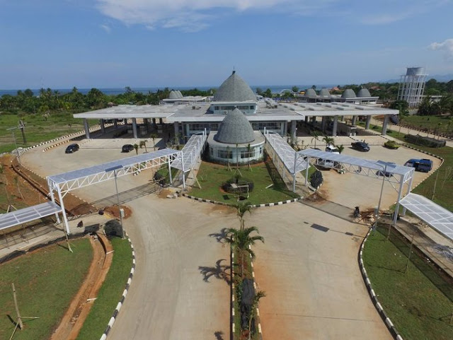 A drone picture overlooking Motaain's newly built border crossing station.